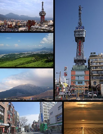 Beppu montage